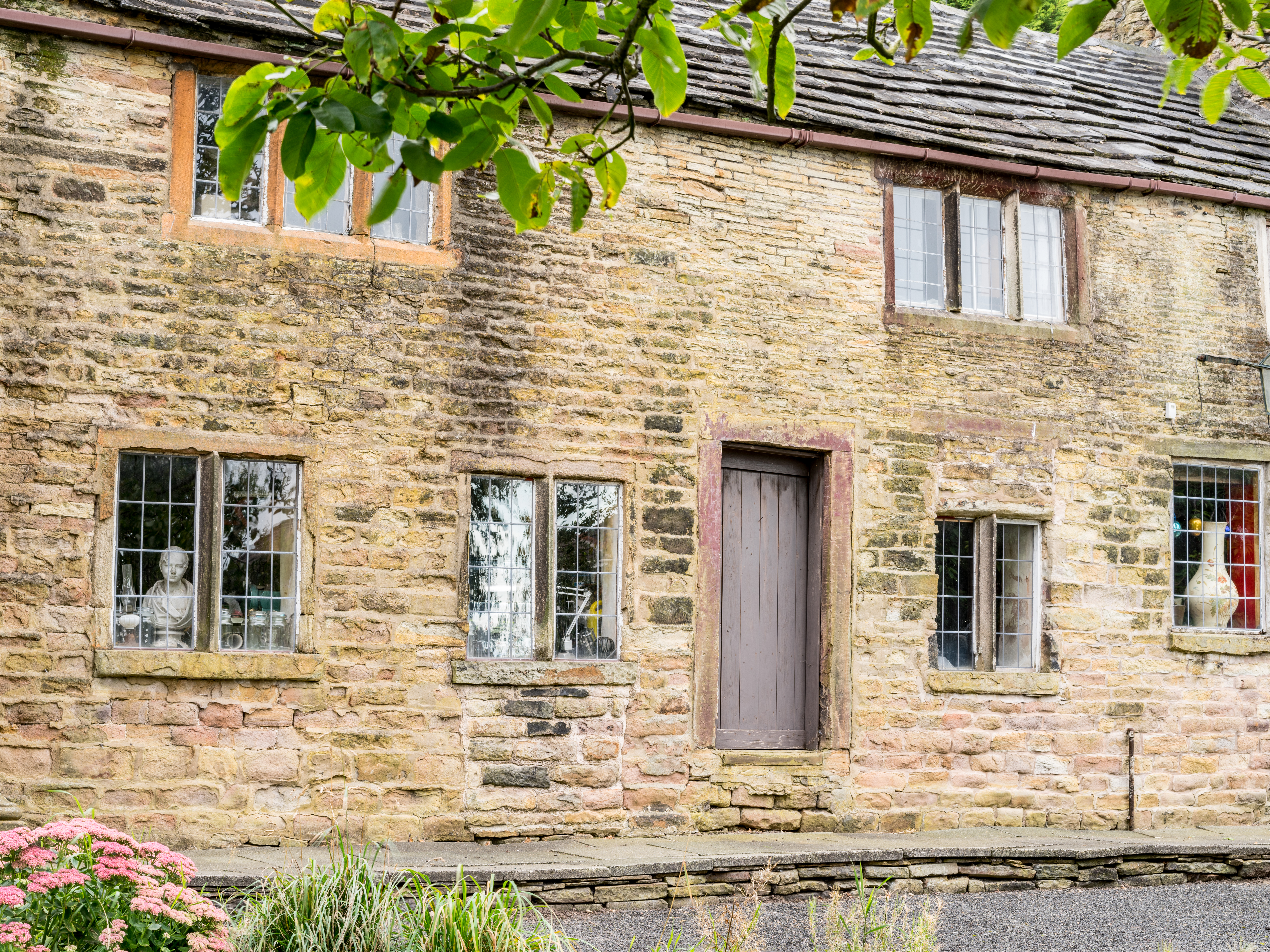 Hathershaw Hall Wikidata has entry Q15223282 with data related to this item.